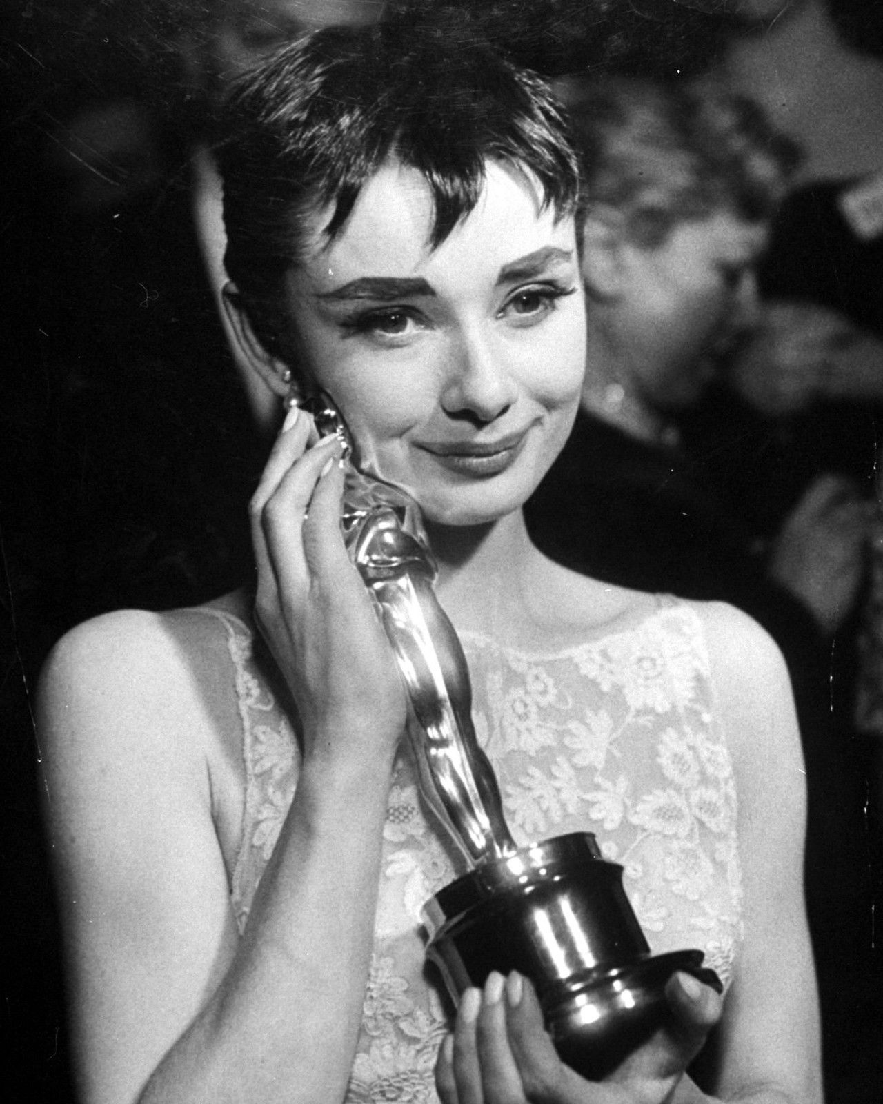 Promotional photo of Audrey Hepburn with Oscar won for the romantic comedy film Roman Holiday (1953).